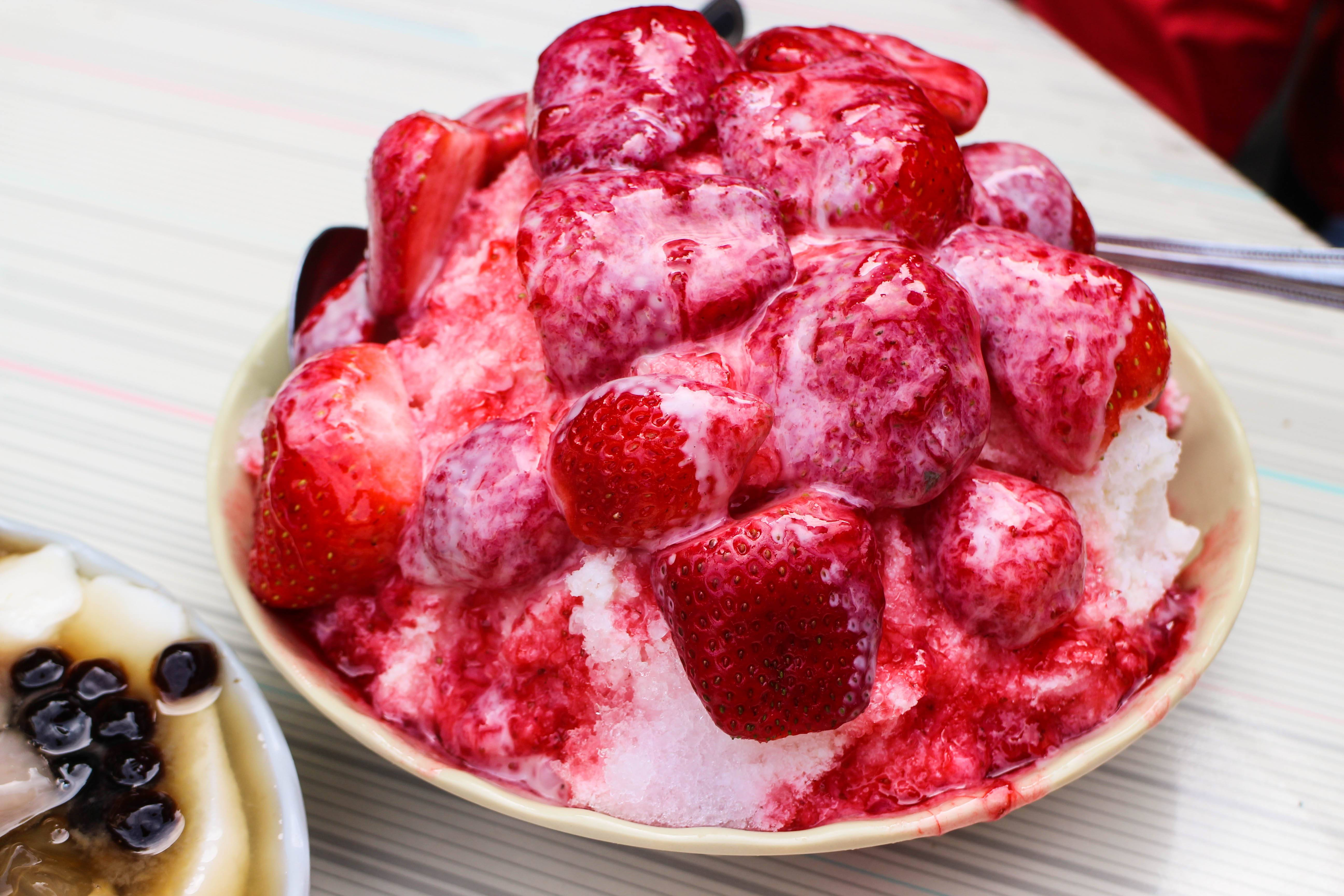 Strawberry shaved ice with condensed milk in Tainan, Taiwan